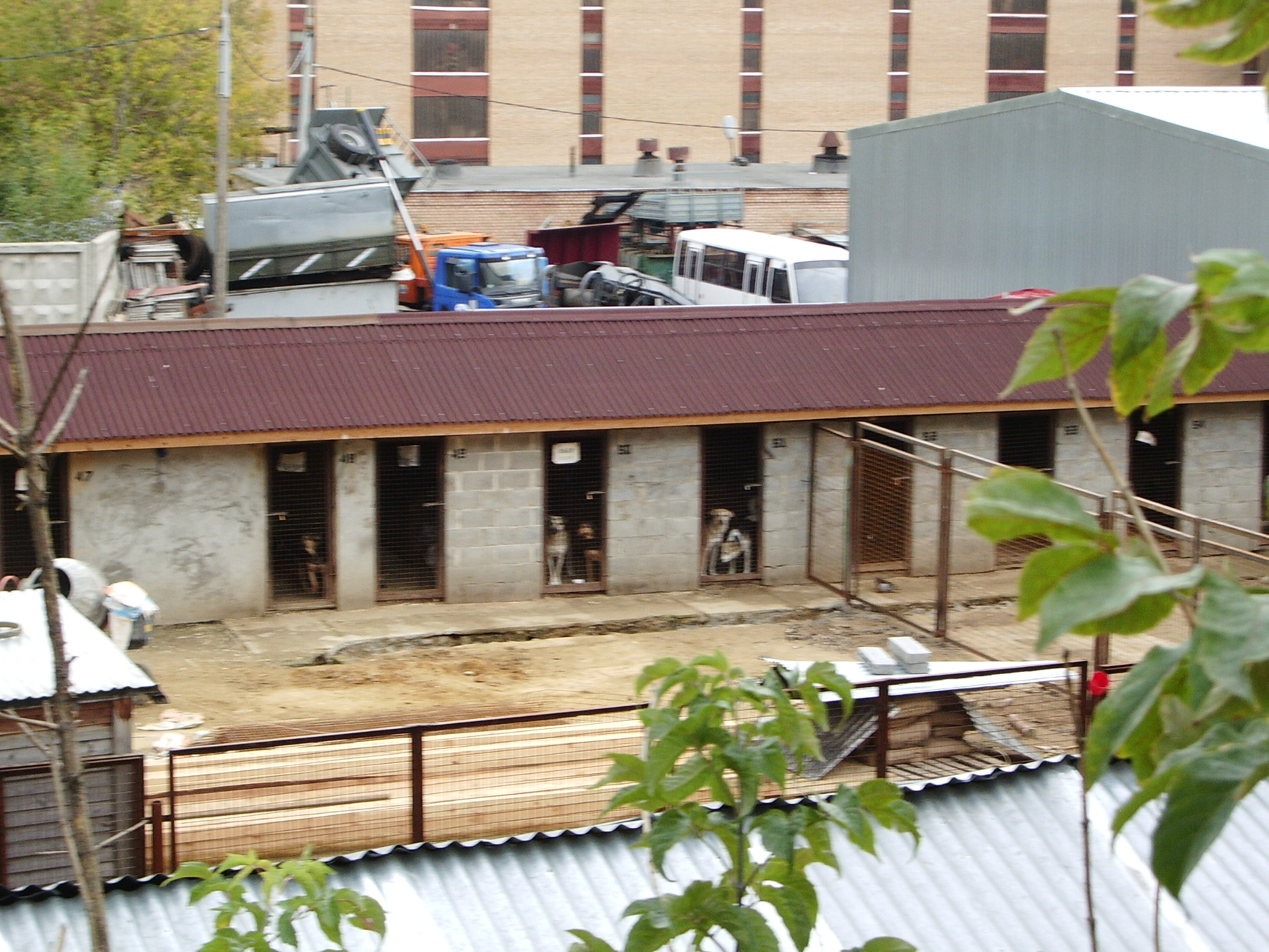 Animal shelter in Moscow (Zorge street)